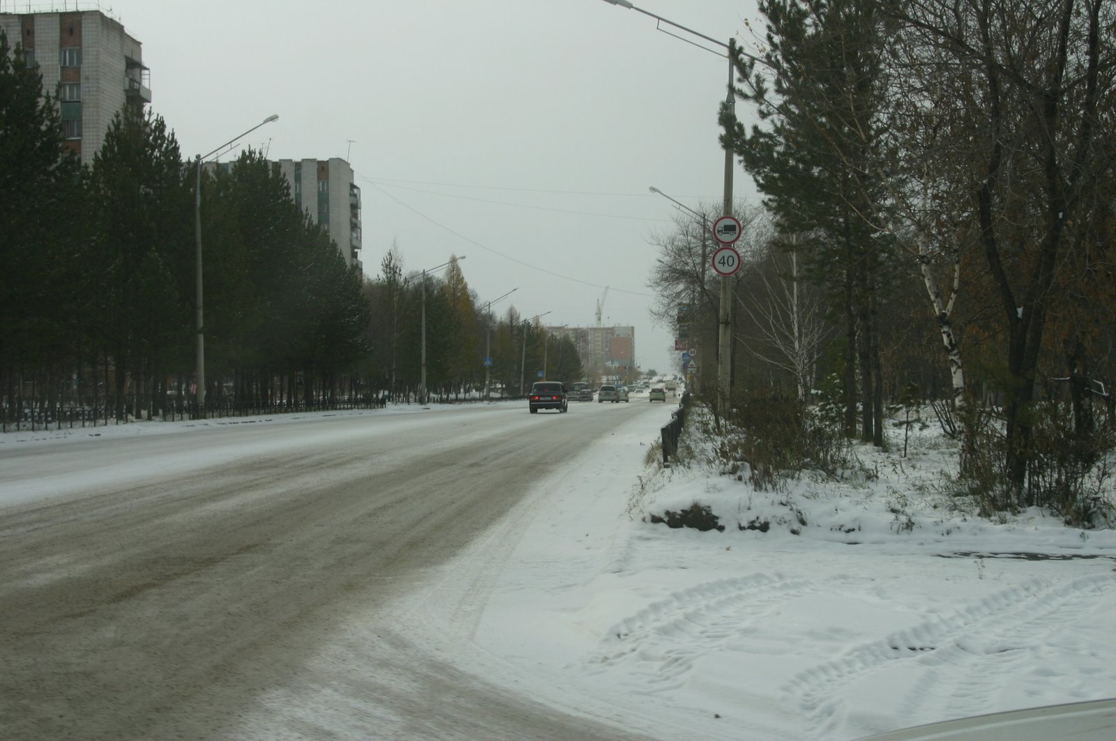 Leninsky Komsomol Street in Sosnovoborsk, Krasnoyarsk Krai. On the left there are 9-storey residential houses No. 3 and No. 5. The building under construction in the background is the 10-storey residential building (Vesennyaya (Spring) Street, 11).